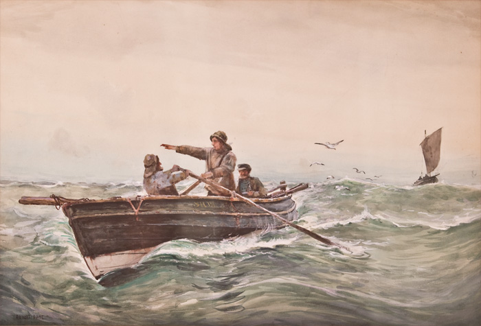 17" x 25".